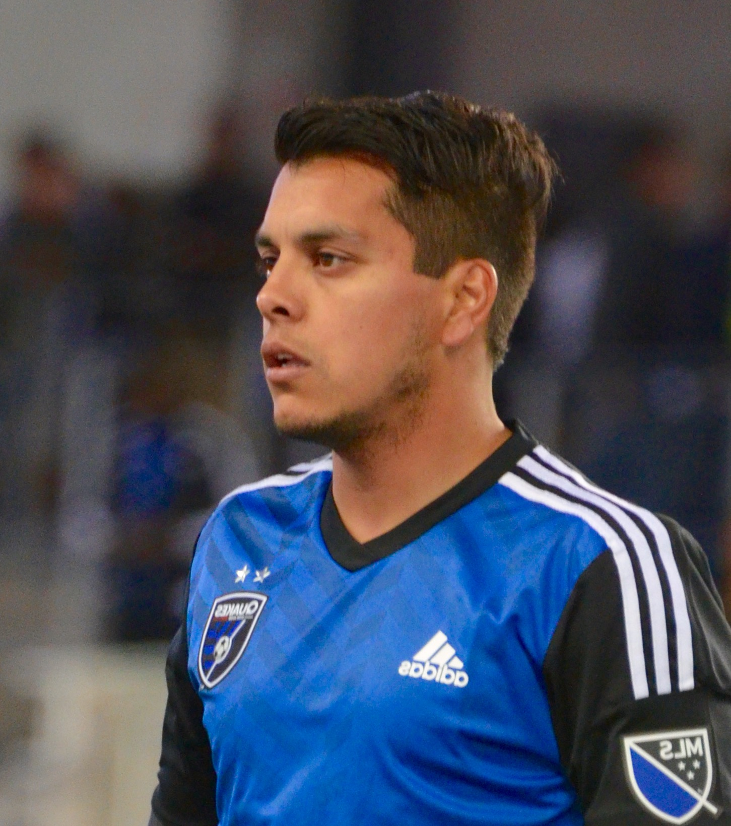 Matias Perez Garcia playing for the San Jose Earthquakes vs the Vancouver Whitecaps at Avaya Stadium on 11 April 2015